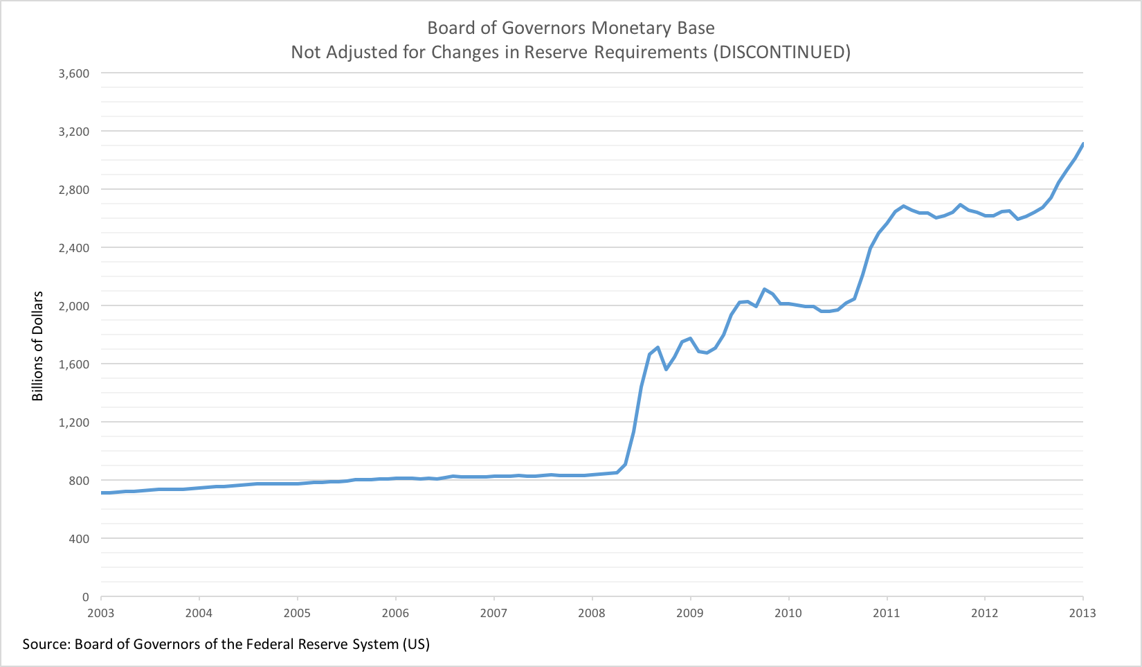 Board of Governors of the Federal Reserve System (US), Board of Governors Monetary Base, Not Adjusted for Changes in Reserve Requirements (DISCONTINUED) [BOGUMBNS], retrieved from FRED, Federal Reserve Bank of St. Louis (2003-5-1 to 2013-5-1)